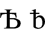 Bashkir Latin letter for [θ], corresponding to Cyrillic Ҫҫ